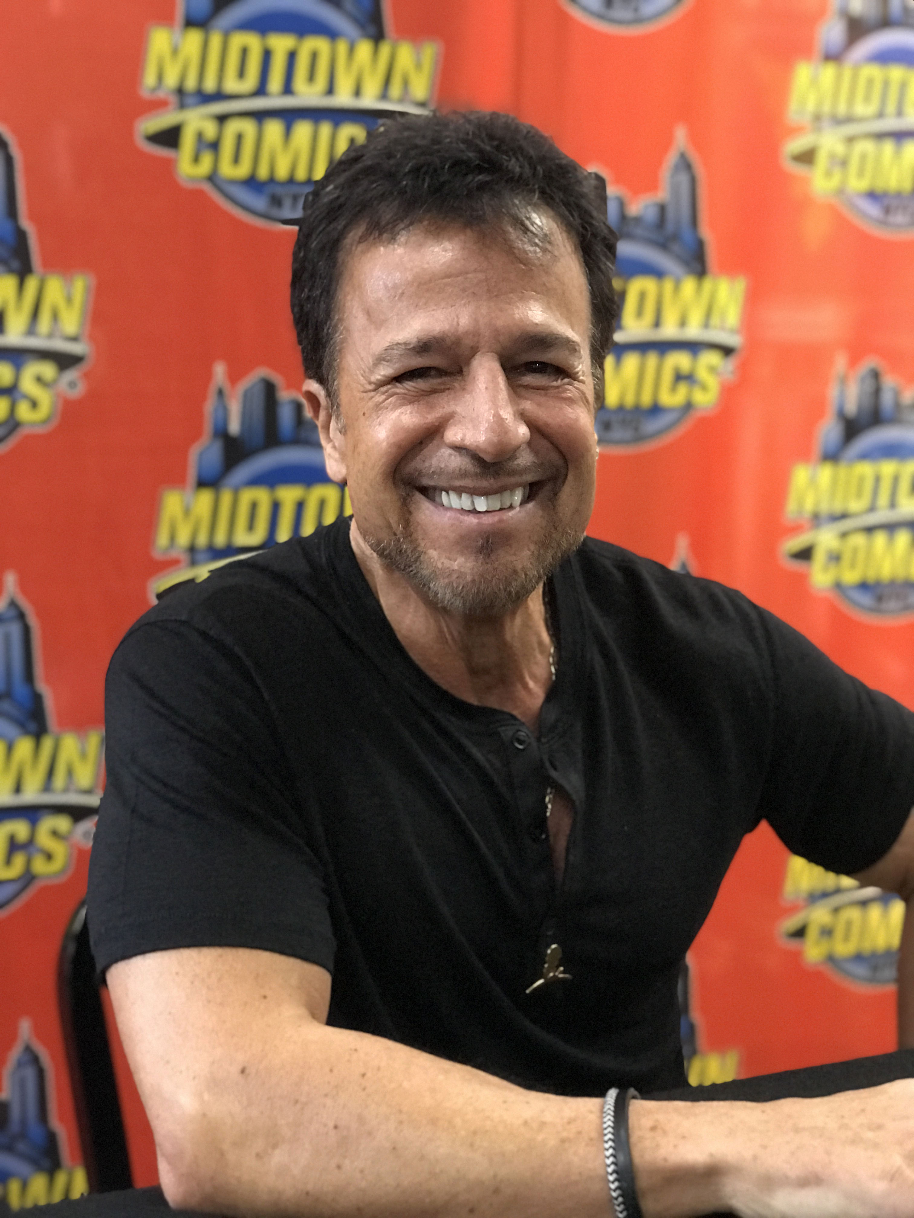 Comics artist John Romita Jr. at a June 20, 2019 book signing for Superman: Year One #1 (August 2019) at Midtown Comics Downtown in Lower Manhattan. This photo was created by Luigi Novi. It is not in the public domain, and use of this file outside of the licensing terms is a copyright violation.